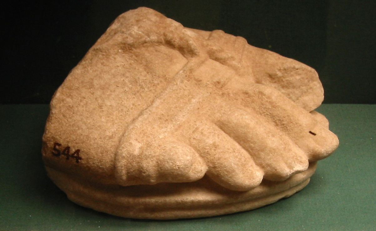 Hellenistic foot fragment at the Temple of Apollo at Bassae. British Museum. Personal photograph 2005. British Museum notice: "The Colossal figure. Fragments of an over life-size marble statue were found in the rear space of the main room. The form of the sandals and the manner in which the hands and feet were added onto the figure indicate a Hellenistic date, perhaps 150-100 BCE. The way that the feet were divided into sections suggests that the figure was draped, or at least partially draped, with the left foot set further beyond the fall of the material than the right, while the struts between the fingers on the left hand indicate that it held something, perhaps a bow or a laurel branch, if the figure was, as seems likely, Apollo" British Museum.